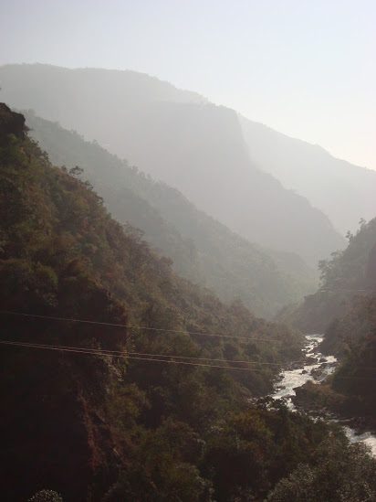 नदीको प्राकृतिक मुहान